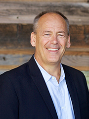 David Batstone is co-founder and president of global anti-slavery organization Not For Sale.